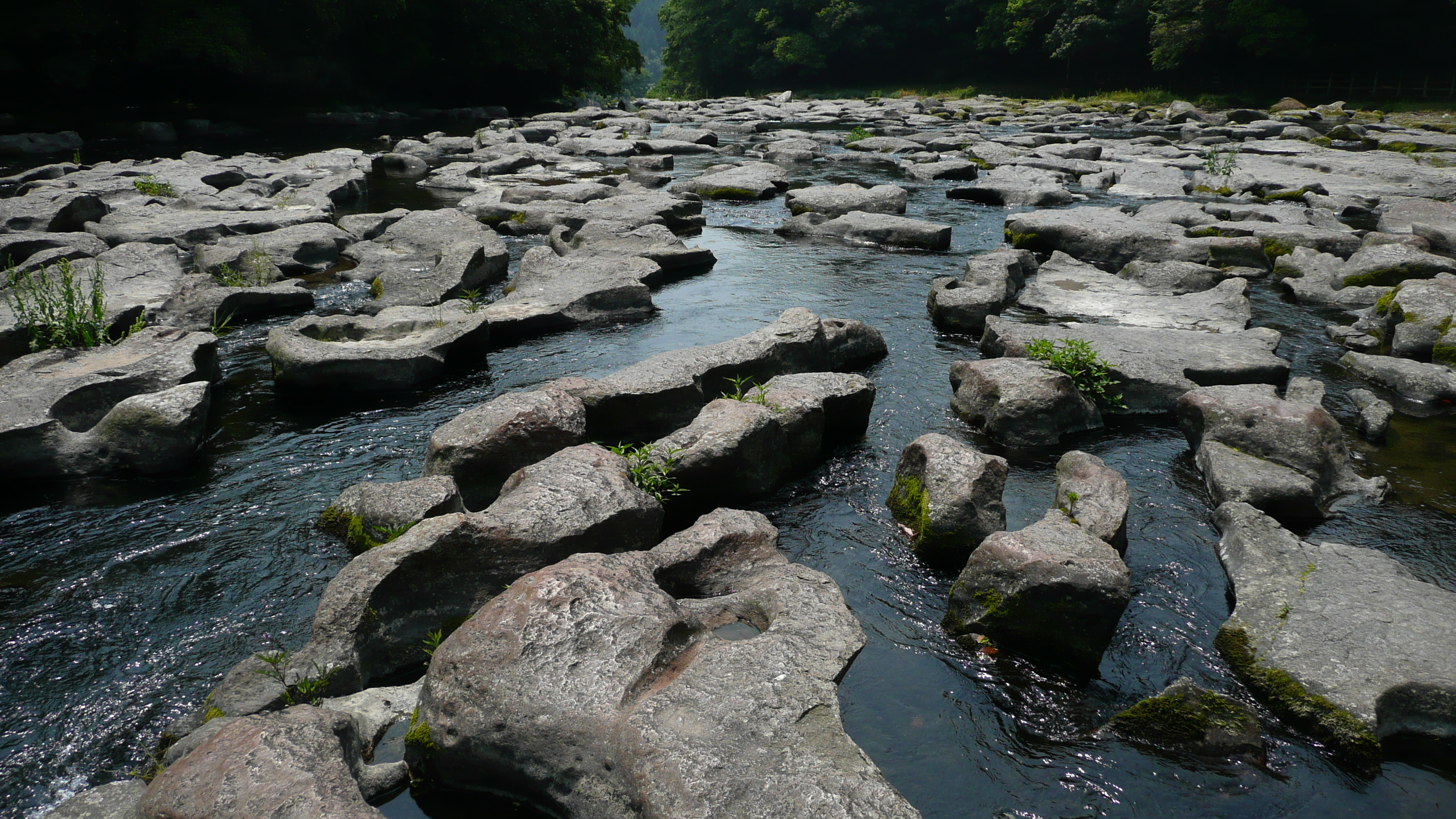 Sekinoo Potholes (Miyakonojo, Miyazaki, Japan)